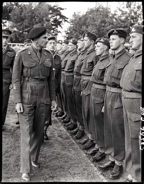 Lieutenant-General Guy Simonds inspecting II Canadian Corps in Meppen, Germany, May 31st, 1945. Photograph by C.H. Richer. Department of National Defence / National Archives of Canada, PA-159372.